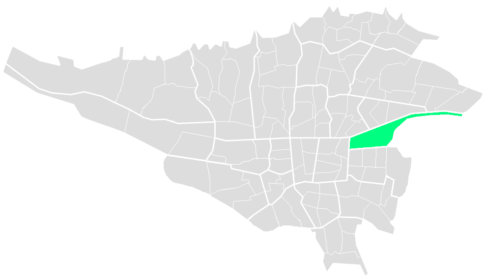 Region 13 of Tehran